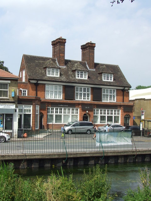 Former pub, Merton High Street